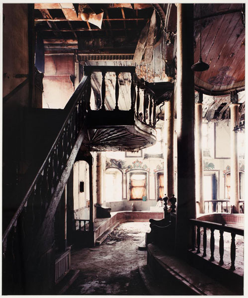 Description: Synagogue Mejor, late 16th Century, Bursa Creator/Photographer: Devon Jarvis Medium: Color photographic print Dimensions: 23 x 19 inches Date: 1996 Persistent URL: Repository: American Sephardi Federation, 15 West 16th Street, New York, NY 10011 Call Number: ASF TS 9 Rights Information: Copyright Joel Zack and Devon Jarvis, reproduction without permission prohibited. For more copyright information, click here. See more information about this image and others at CJH Digital Collections. Digital images created by the Gruss Lipper Digital Laboratory at the Center for Jewish History